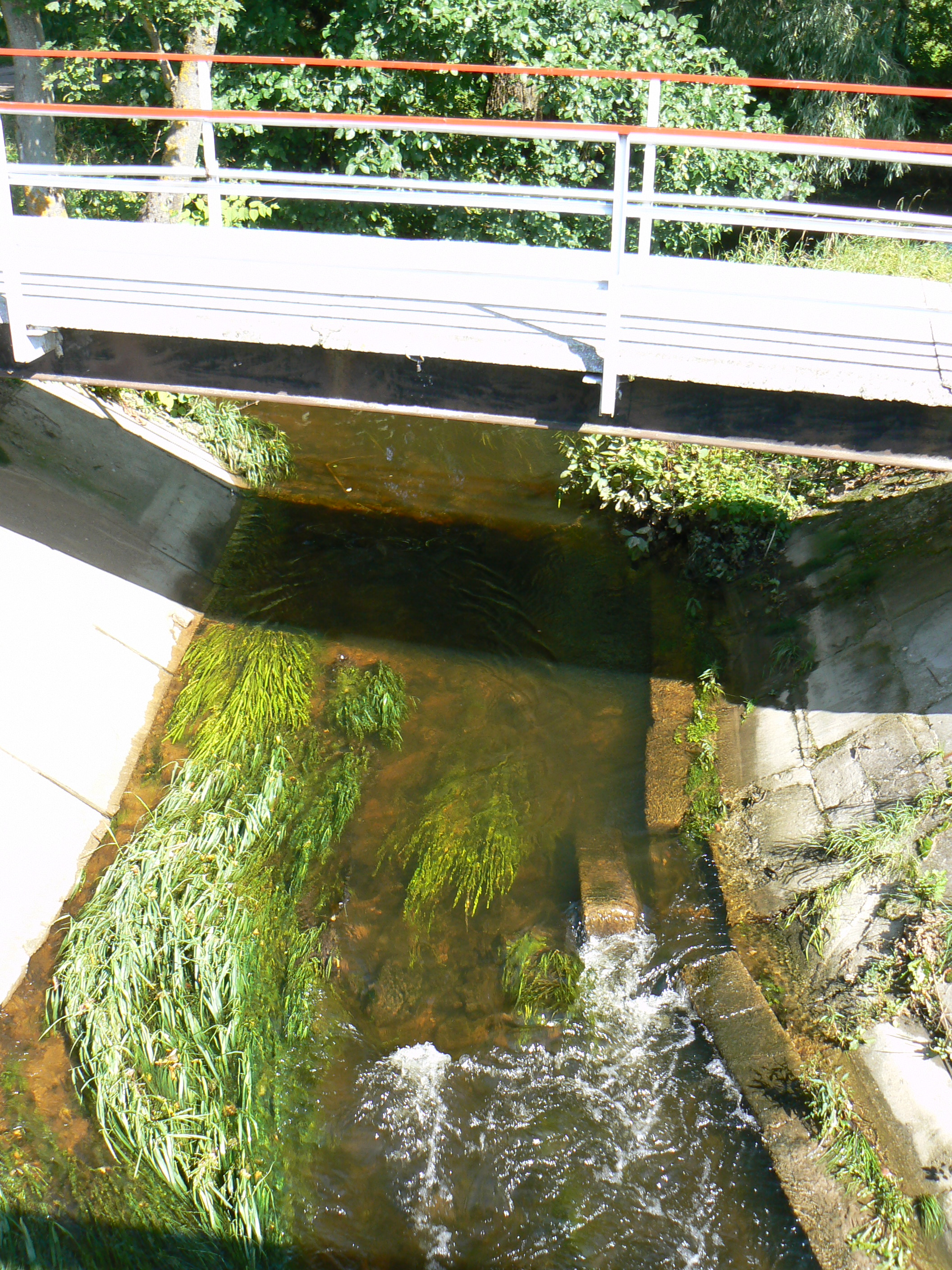 River Veižas (tributary of Neman) in Žemaitkiemis (Lithuania)